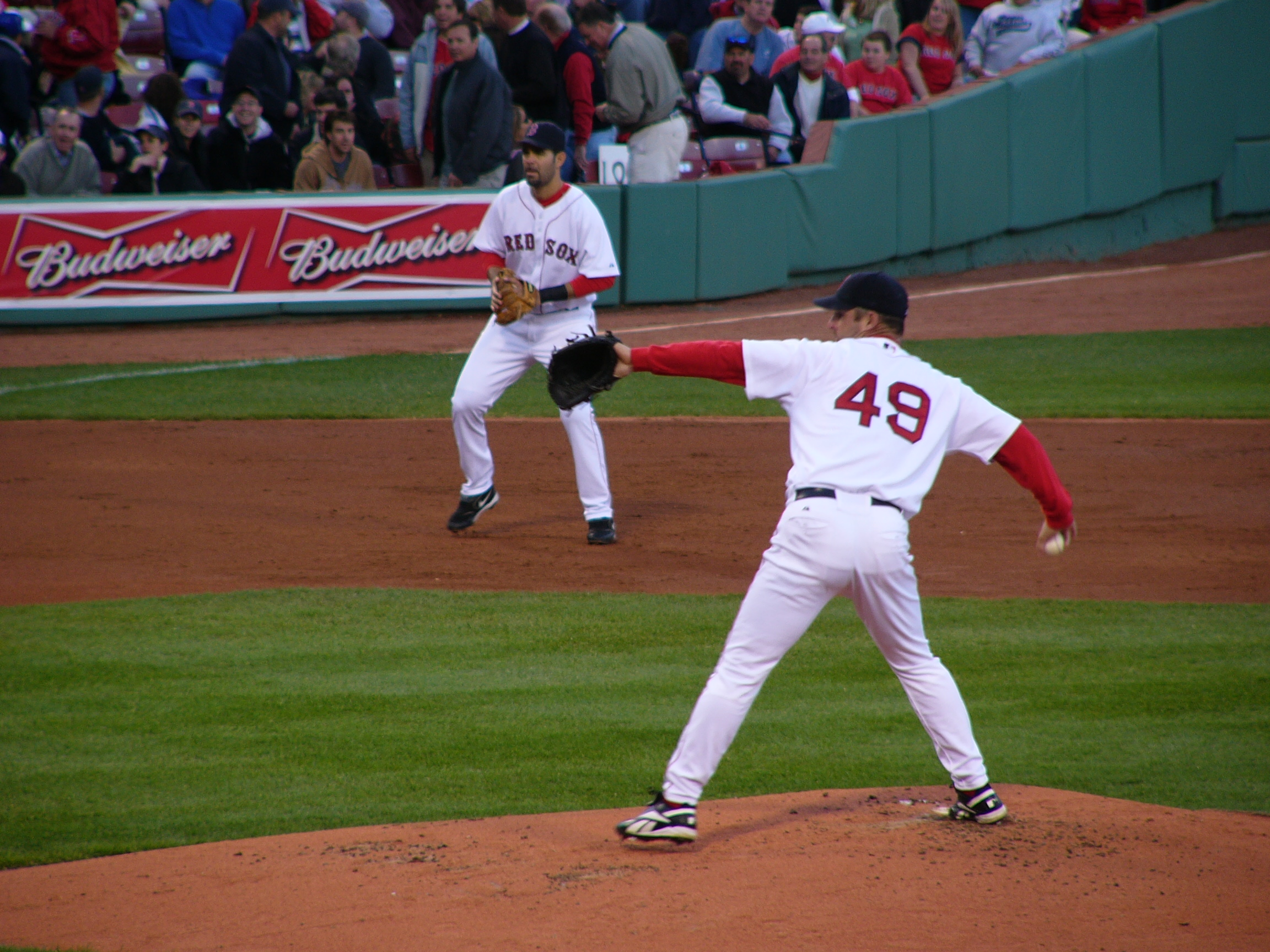 Tim Wakefield pitching for the Boston Red Sox in a game against the New York Yankees at Fenway Park in Boston, MA on May 23, 2006